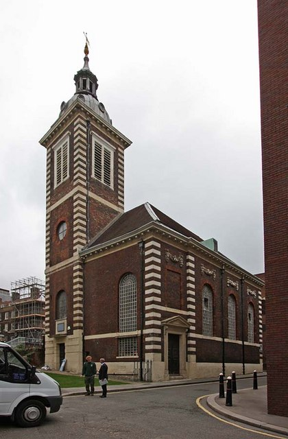 St Benet Paul's Wharf, Queen Victoria Street, London EC4